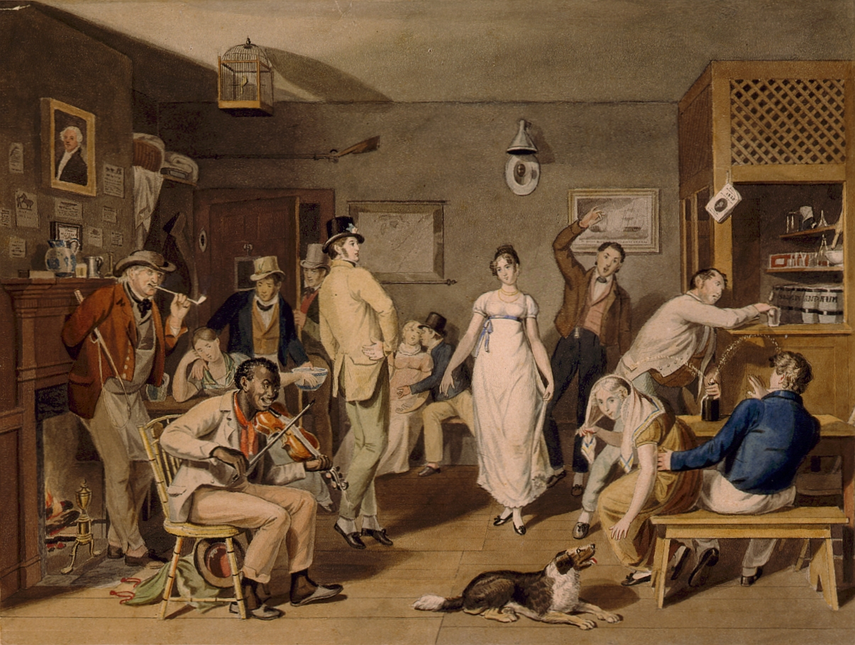 Dance in a country tavern, showing people drinking and dancing while an African American man plays fiddle